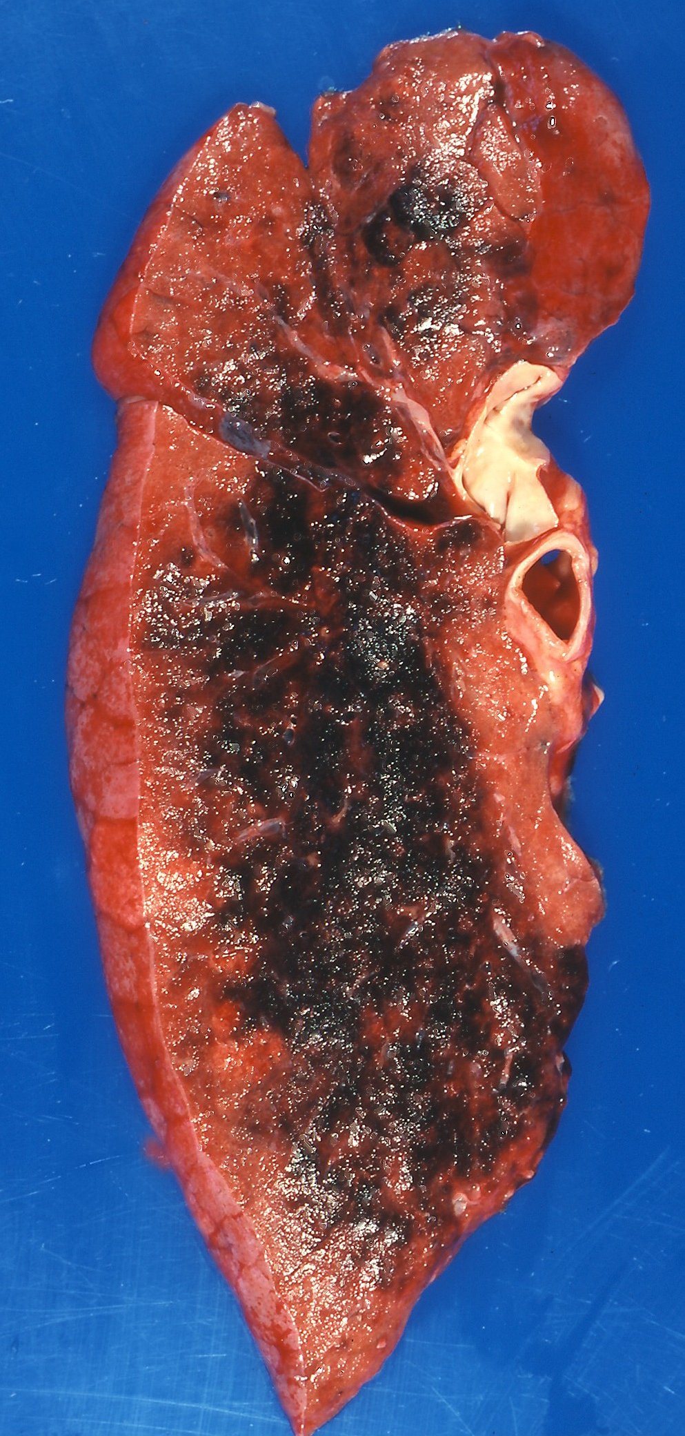 Hemorrhagic pneumonia due to cytomegalovirus infection.